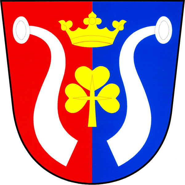 Coat of amrs of Trhové Dušníky , District Příbram, Czech Republic